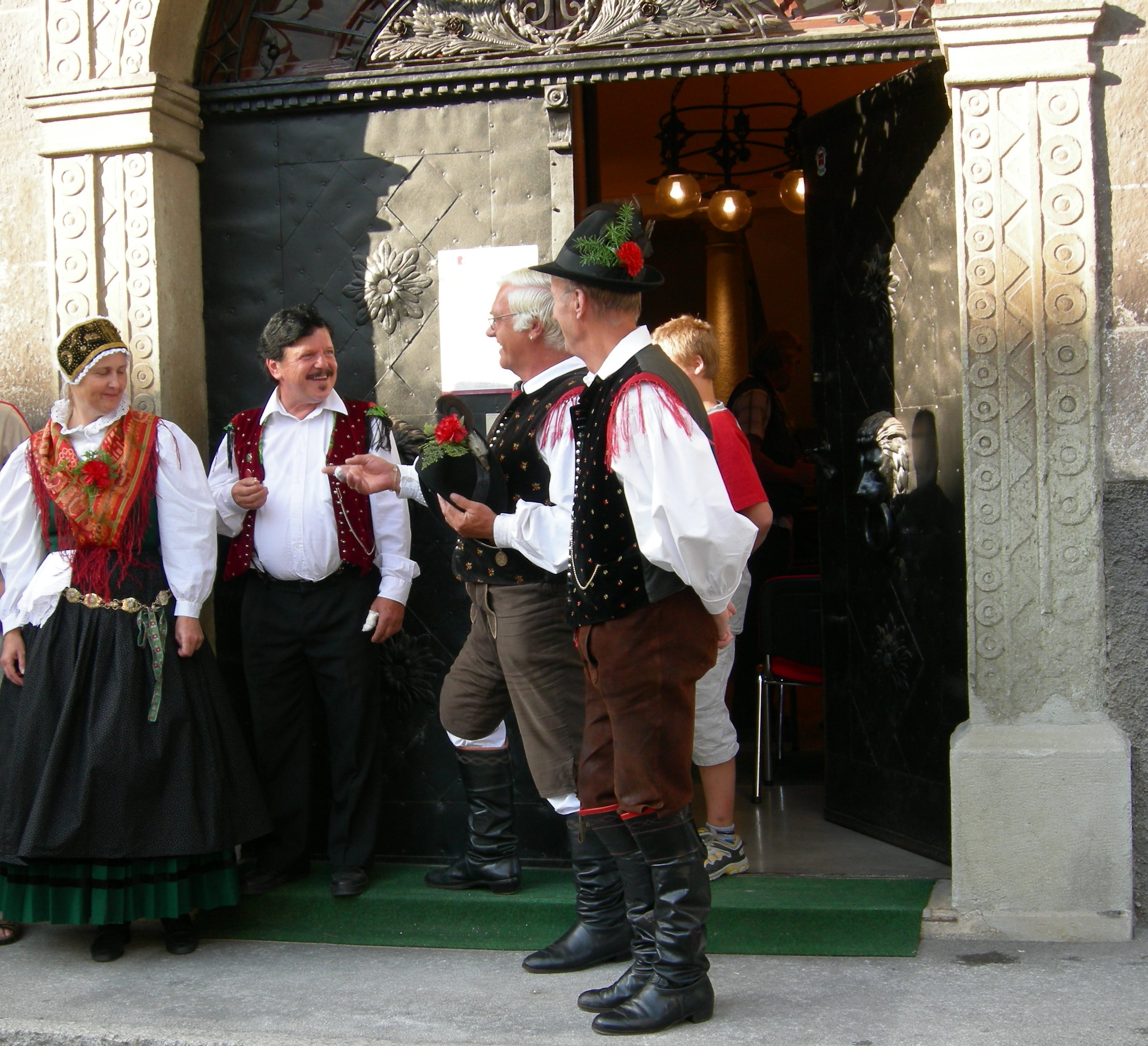 The Kos manor house in Jesenice, Slovenia - entrance